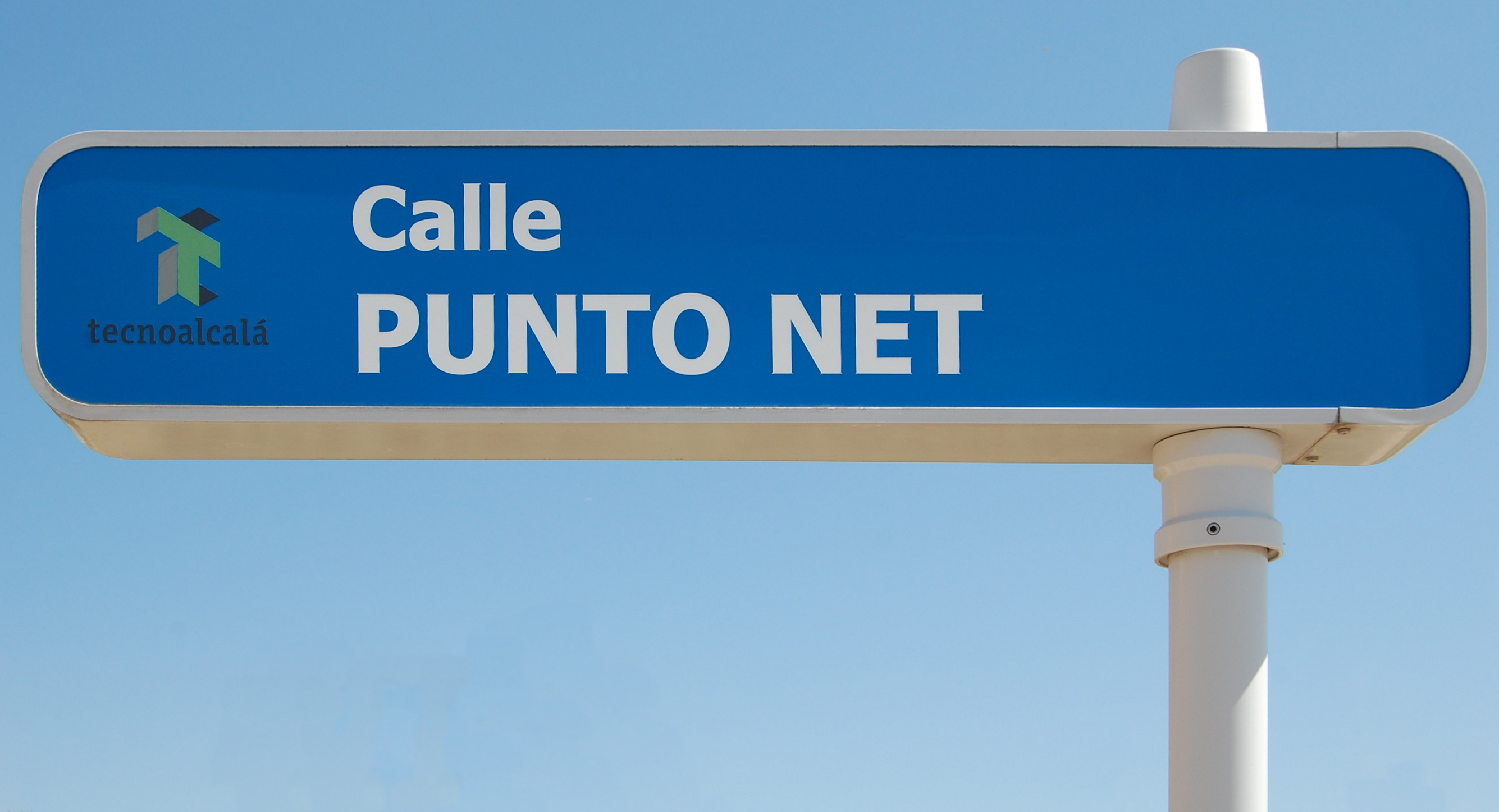 Street sign dedicated to domain name .net, in Alcalá de Henares (Community of Madrid - Spain).